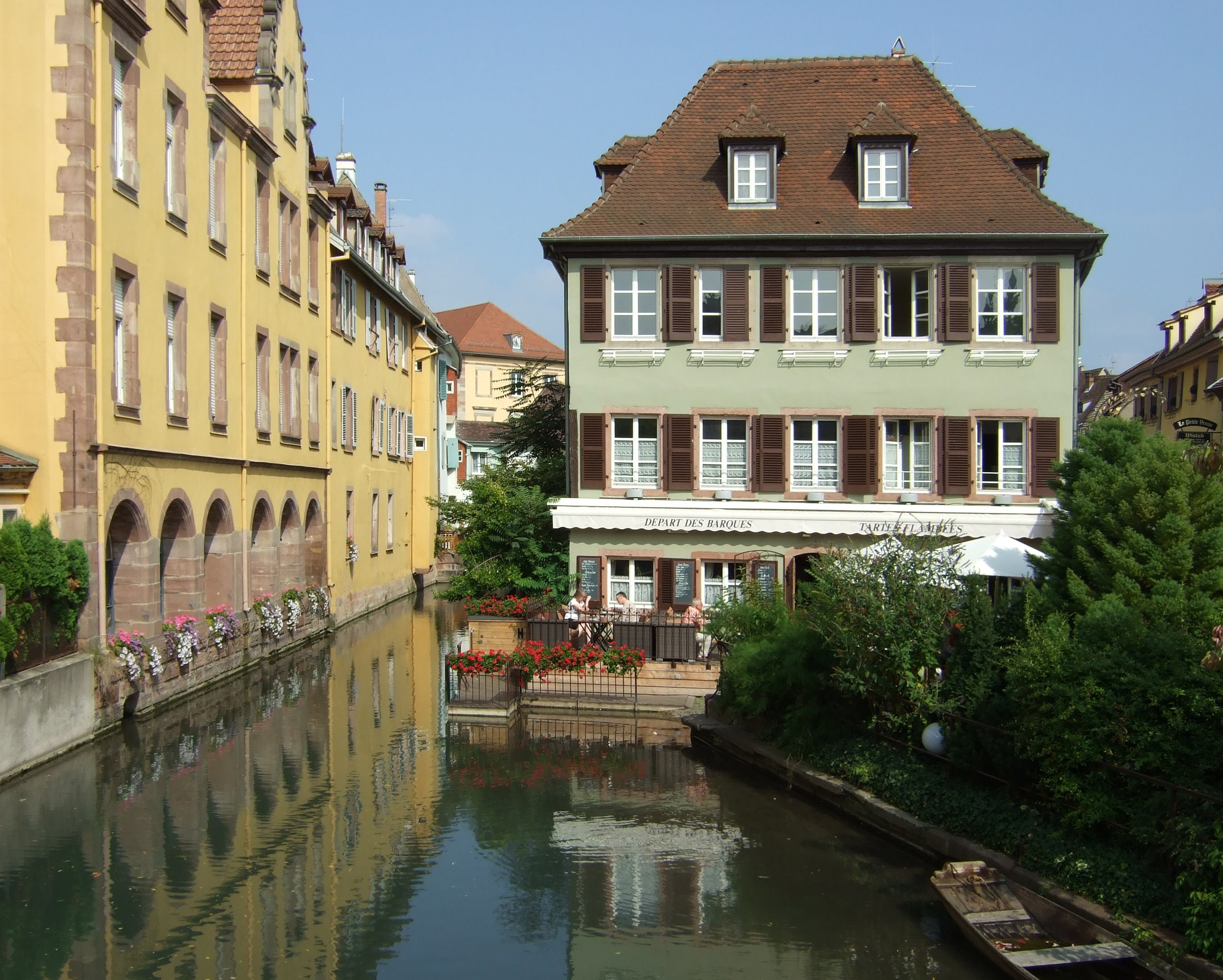 The little Venice in Colmar (Haut-Rhin, France).